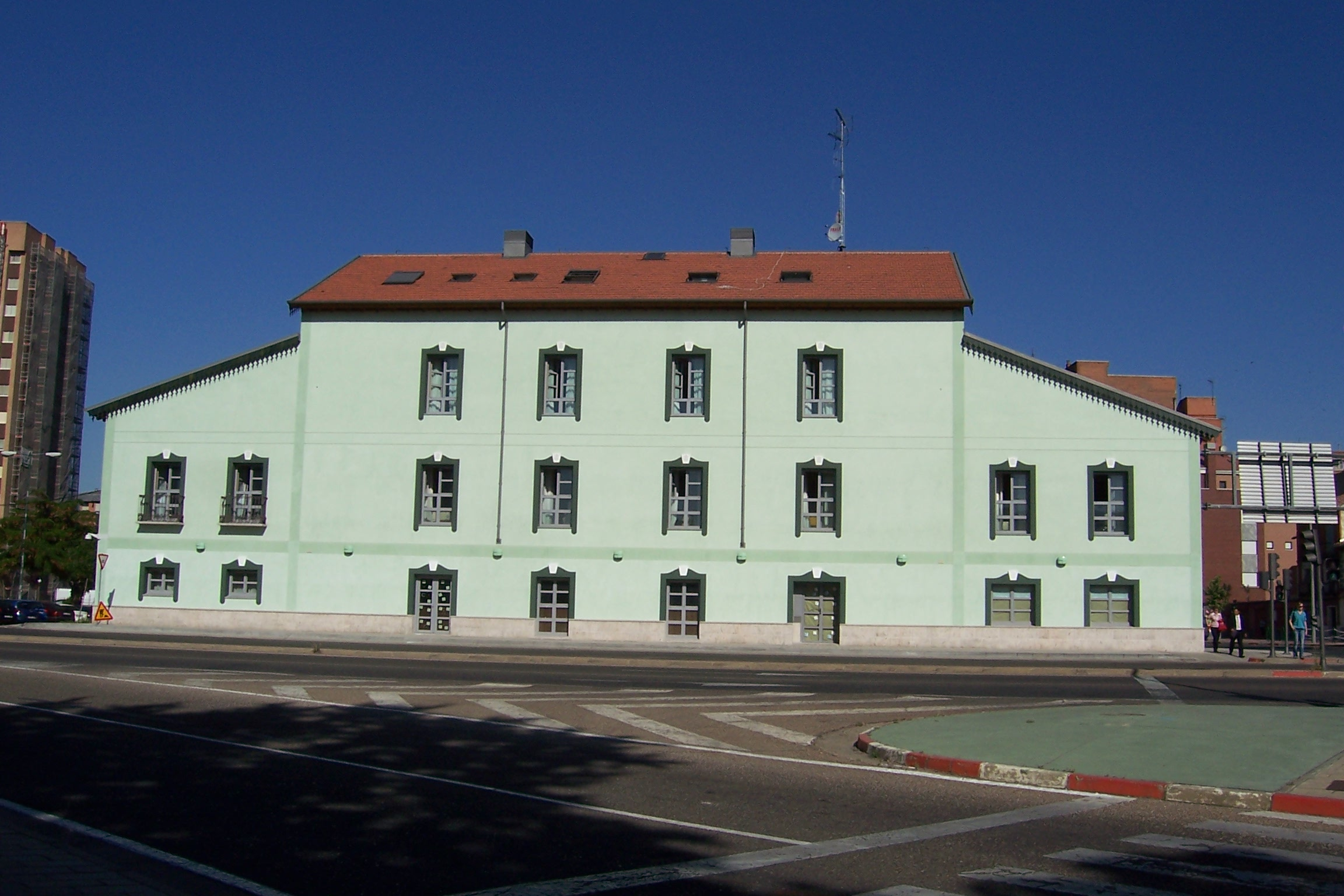 The flour factory "La Perla" was an old flour mill built between 1856 and 1857 in the third waterfall of the dock of the Canal de Castilla in Valladolid (Spain).